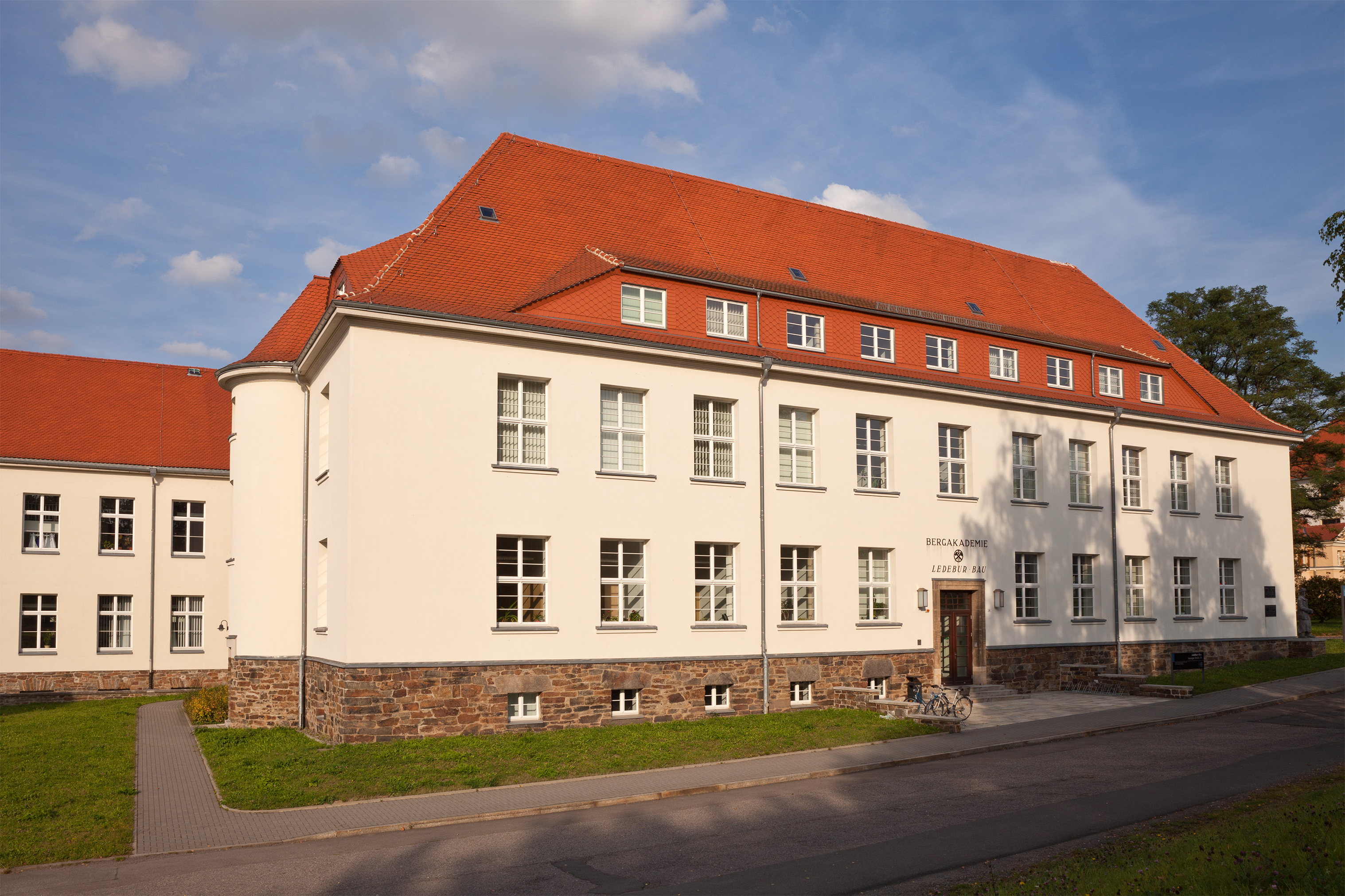 Technische Universität Bergakademie Freiberg, Ledebur-Bau (Leipziger-Straße 34)